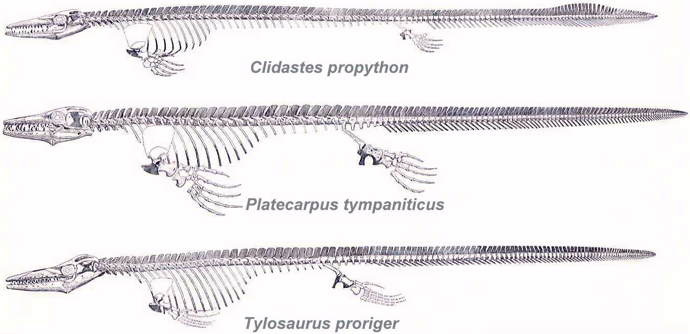 Shown is a drawing from Williston (1898) that shows the skeletons of three common species of mosasaurs from Kansas; Clidastes propython, Platecarpus tympaniticus and Tylosaurus proriger. Although these three species are shown about the same size in the drawing, in life, Clidastes was the smallest (about 12-15 feet); Platecarpus was the next largest (about 24 feet) and Tylosaurus was the largest (30 plus feet)